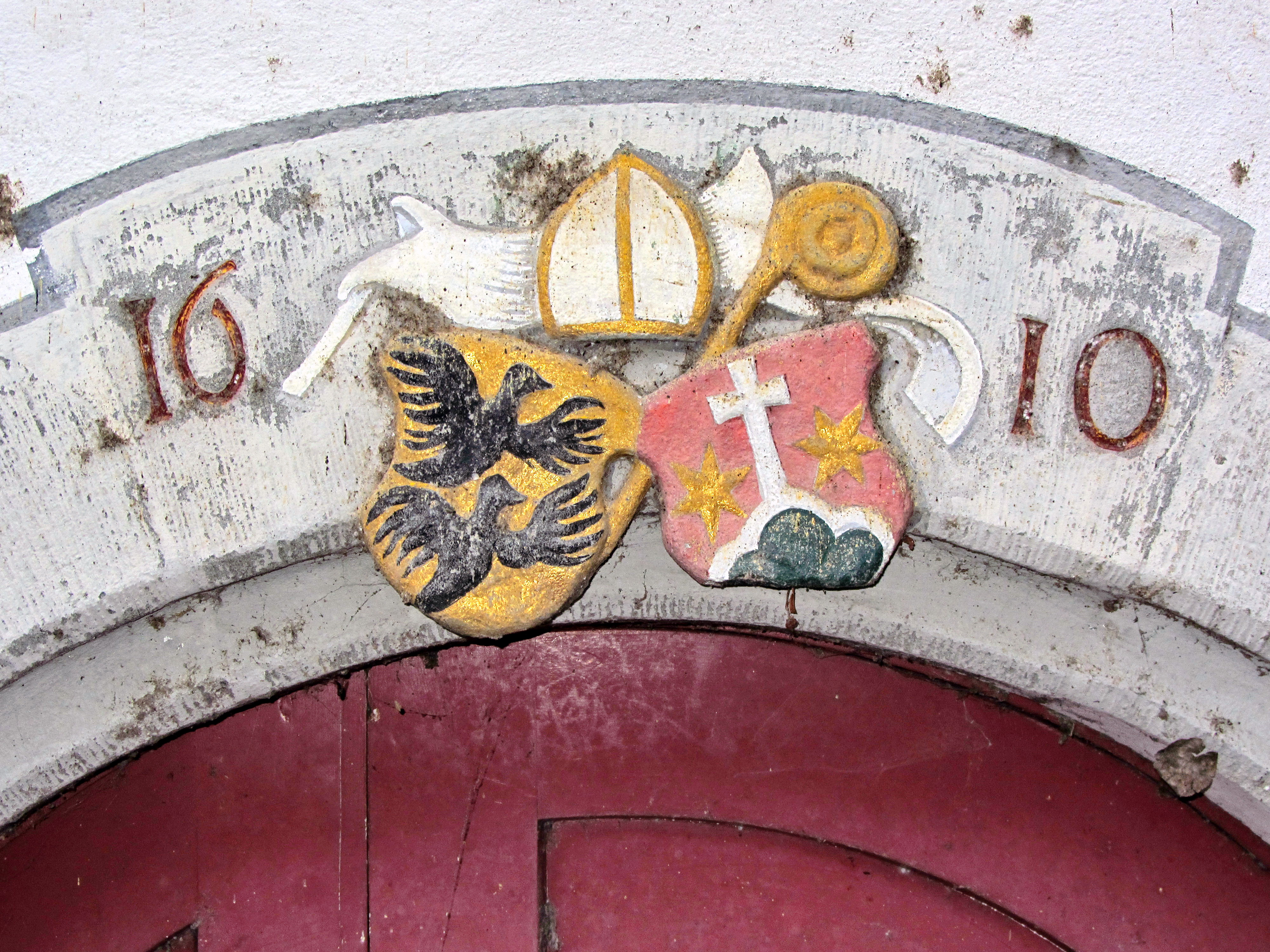 Coats of arms of Einsiedeln Abbey (to the left) and Abbott Augustin Hofmann, Einsiedlerhaus situated next to the Kapuzinerkloster in Rapperswil (Switzerland).